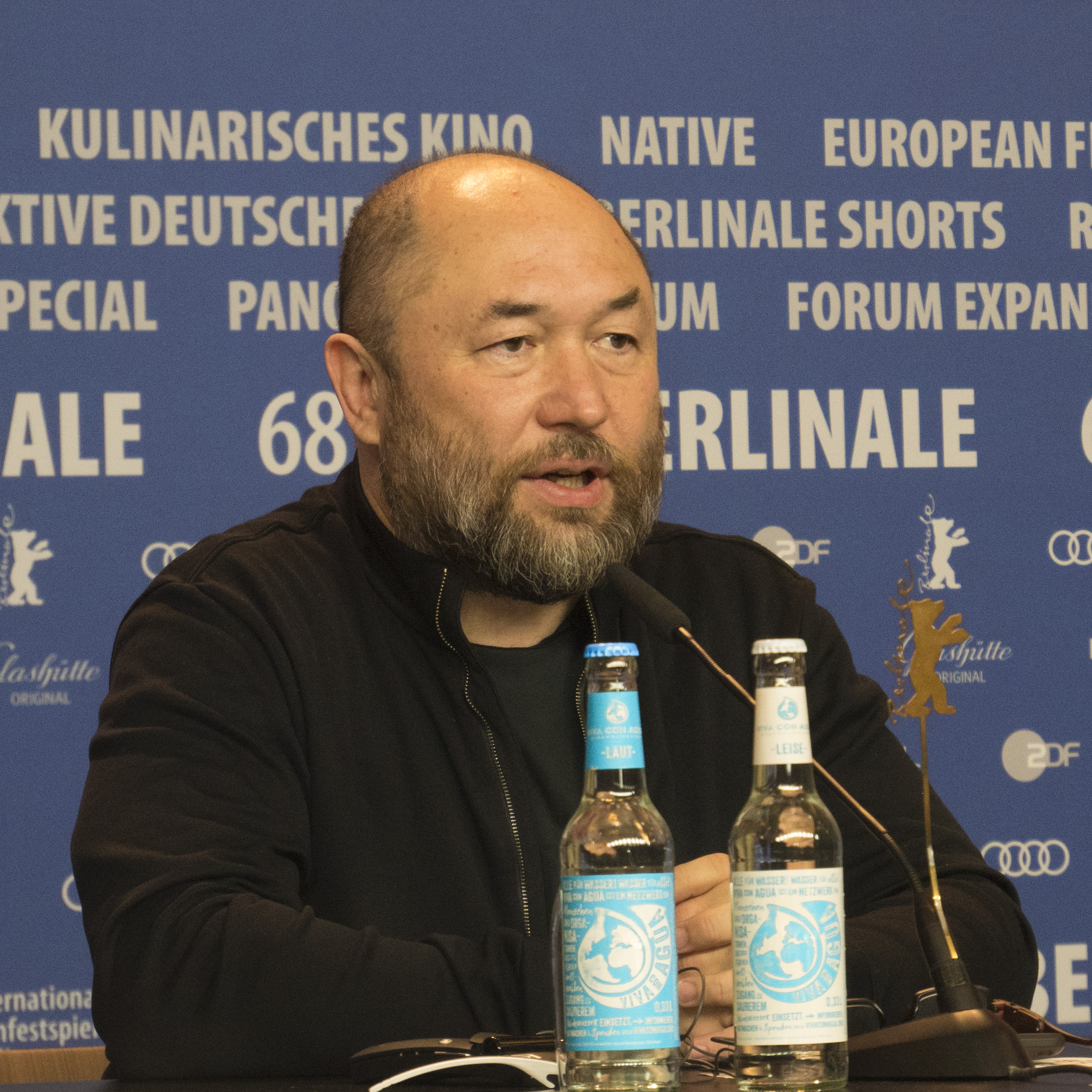 Timur Bekmambetov at the press conference of Profile at Berlinale 2018.